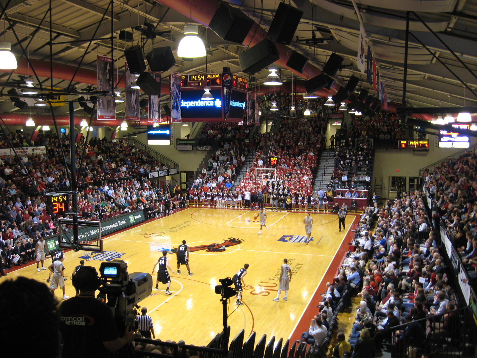 Hagan Arena, during a St. Joseph's Butler game, 2013